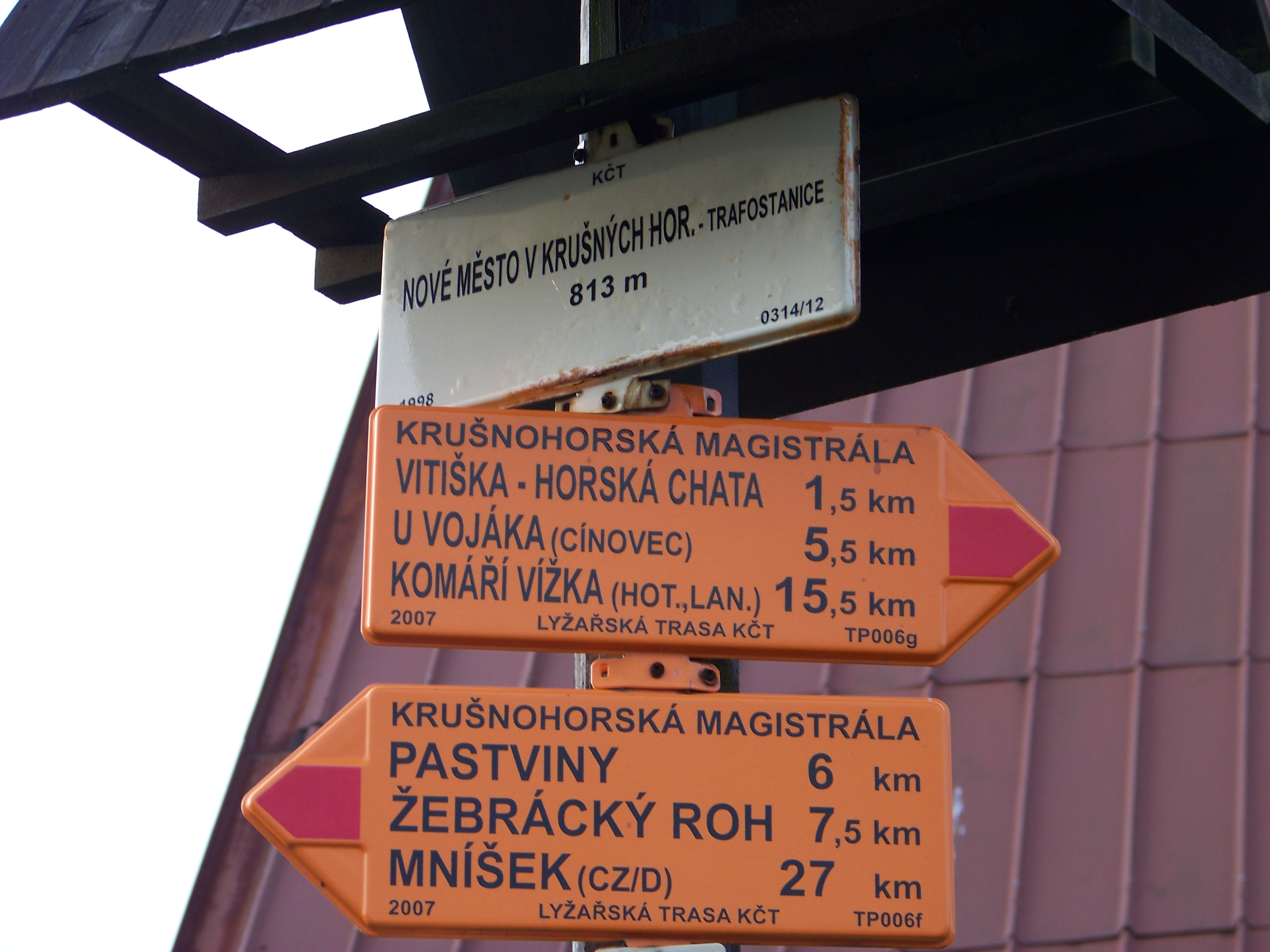 Moldava-Nové Město, Teplice District, Ústí nad Labem Region, the Czech Republic. A hiking fingerpost.